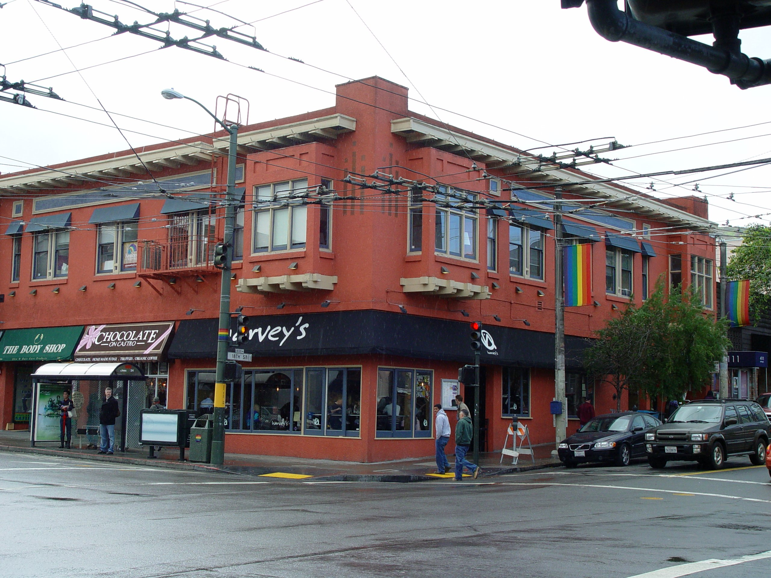 Harvey's bar (in memory of Harvey Milk) Castro Street San Francisco, CA